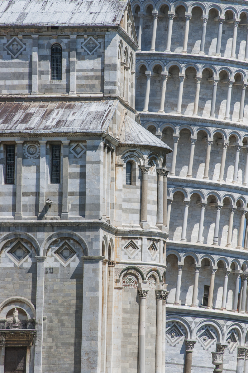 Leaning Tower of Pisa, Pisa, Italy